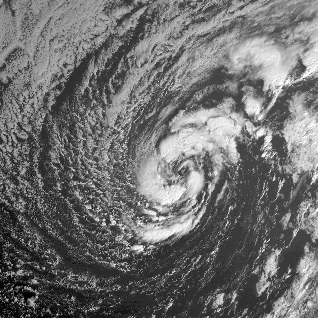 The 2006 cyclone off Midway Atoll persisting west of the International Date Line late on November 7, 2006.